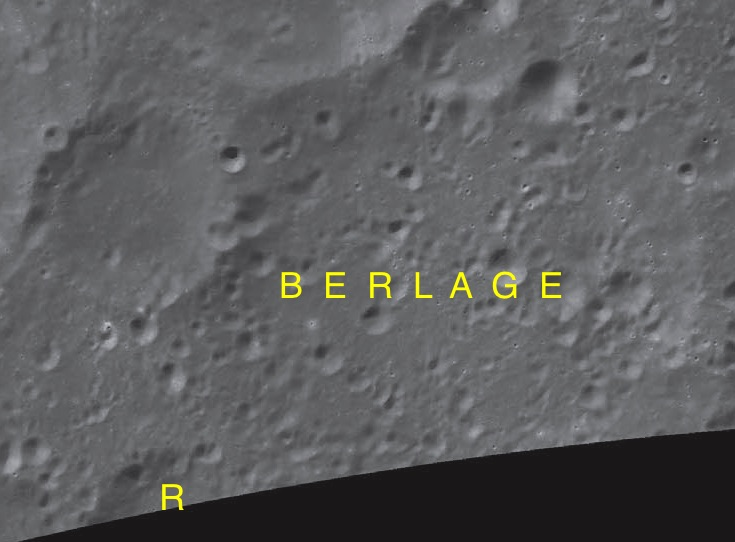 Part of the chart LAC-133 used for the presentation.